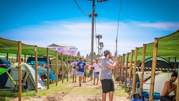 Medusa Festival Camp